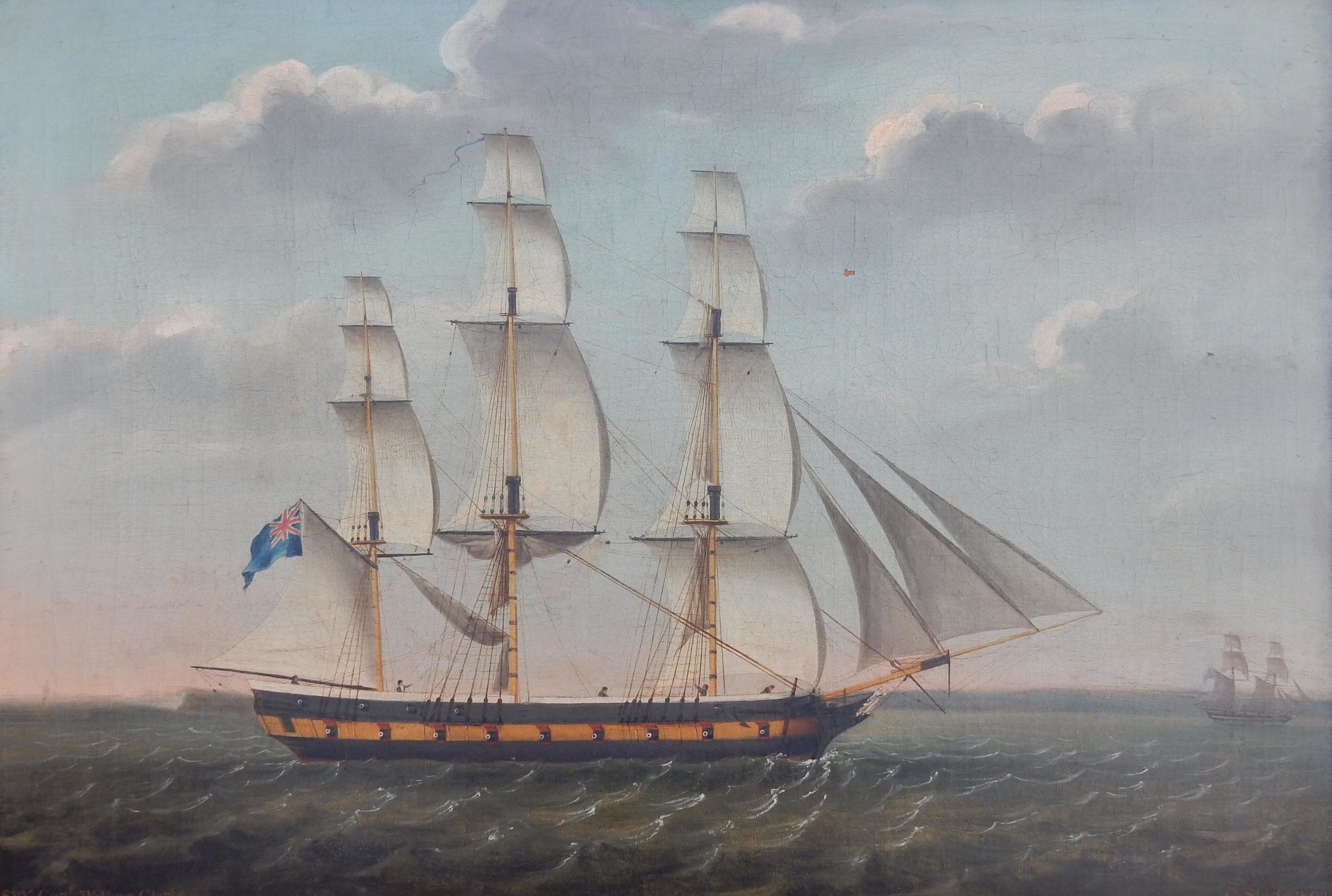 1803 Painting by C. Slade.